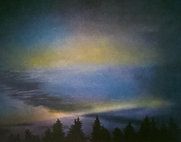 Nightglow. Photo by Ângelo Antônio Leithold, taken in 1976.